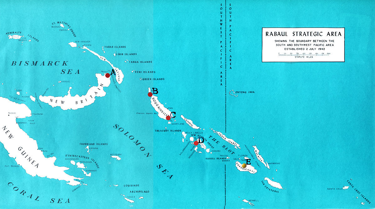 Map of the air bases directly involved with the Guadalcanal campaign and the Cactus Air Force, August, 1942 - February, 1943. Red dots are Japanese bases, the yellow dot is Allied (Henderson Field on Guadalcanal). Key: A- Rabaul, New Britain (several airfields were actually located here) B- Buka (a separate island from Bougainville) C- Buin, Bougainville D- Munda, New Georgia E- Henderson Field, Guadalcanal Background taken from Image:RabaulStratArea.jpg (U.S. Government public domain image) and modified by editor Cla68 on Jan 21, 2007. Released under GFDL